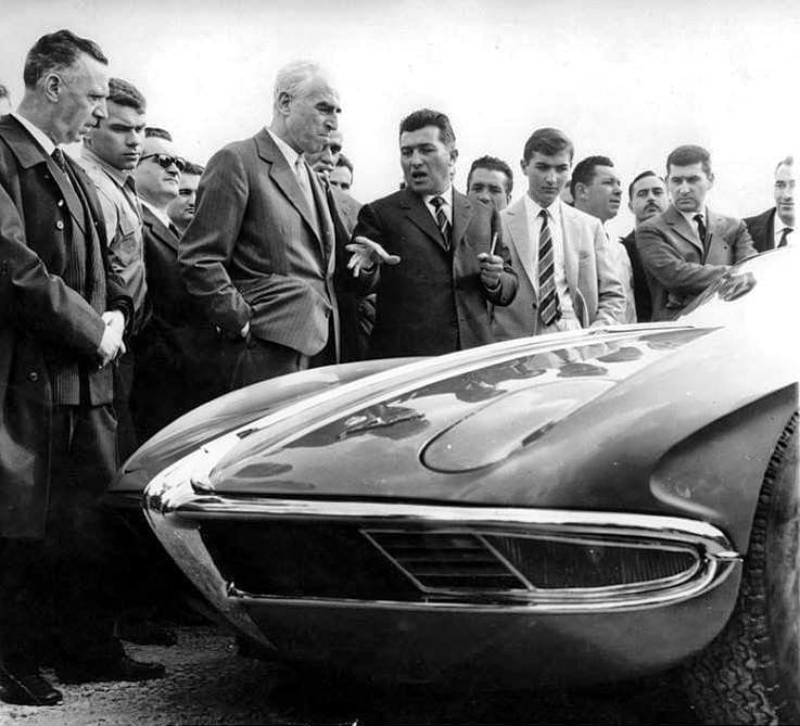 Ferrucio Lamborghini expalains the 350 GTV to motor journalist Giovanni Canestrini.